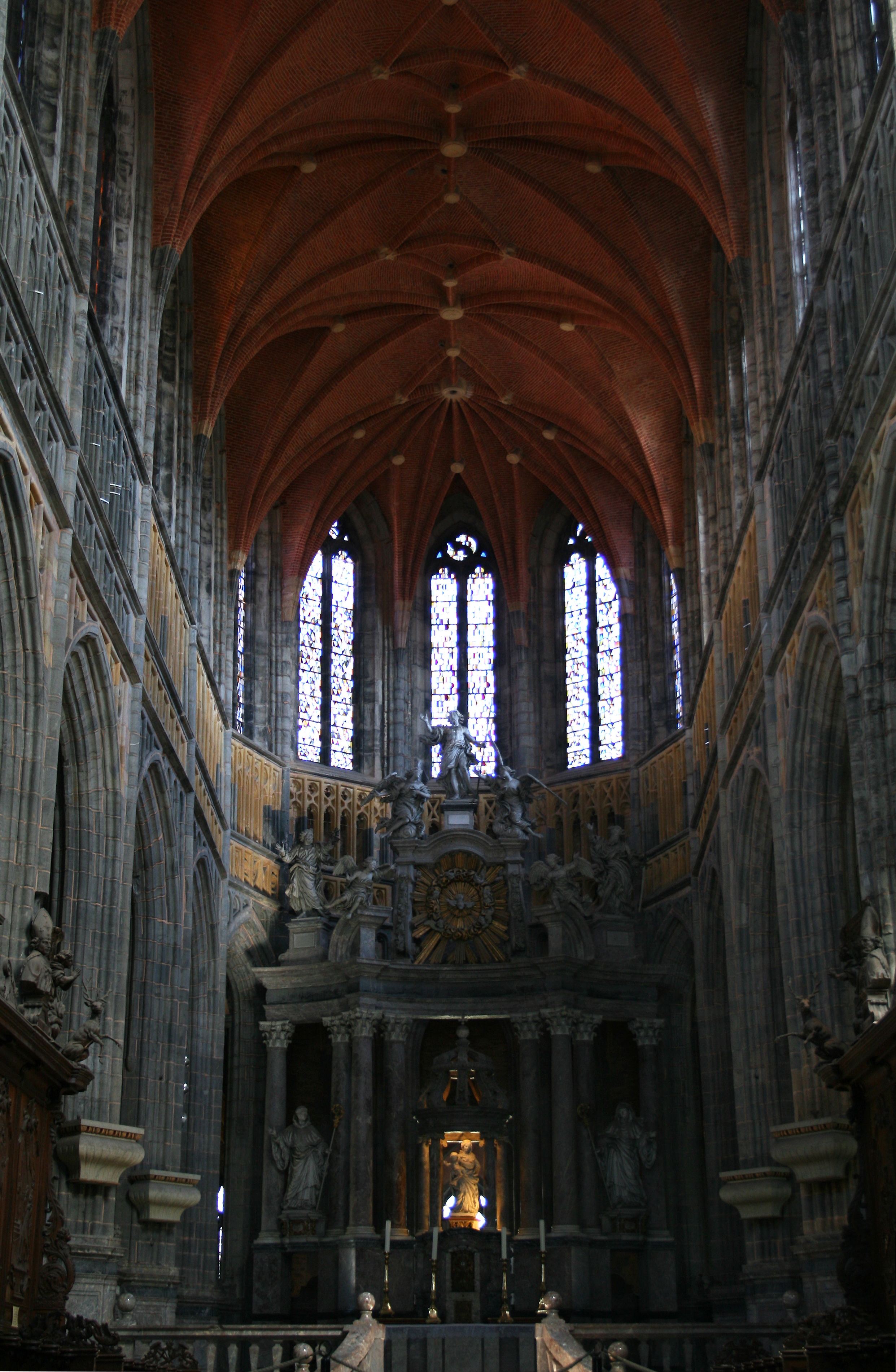 Choir of the Saints Peter and Paul Basilica (16/18th centuries) of Saint-Hubert (Belgium).